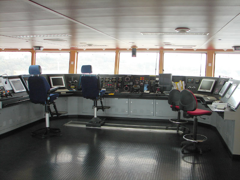 The wheelhouse onboard the dredge Samuel De Champlain